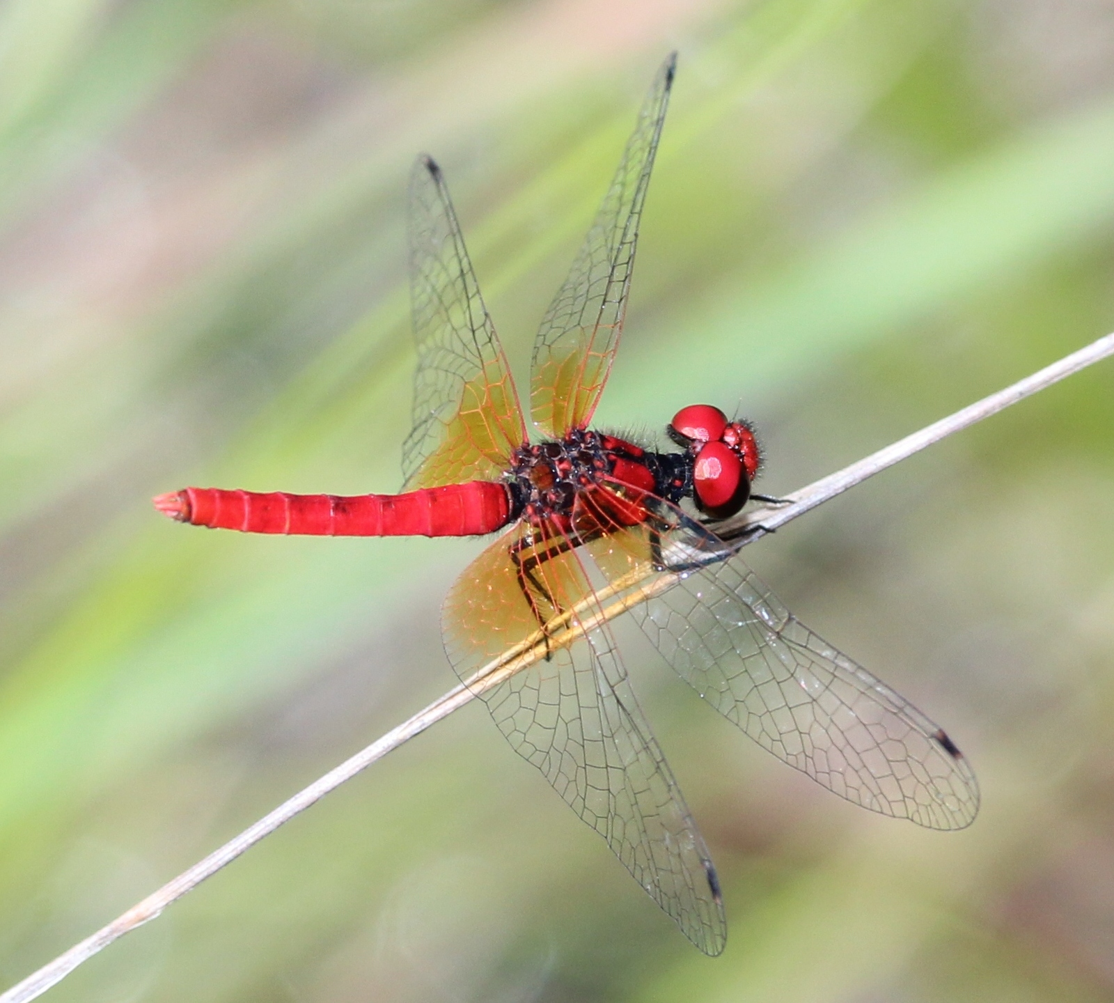 Nannophya pygmaea (Scarlet Dwarf), male in Japan.